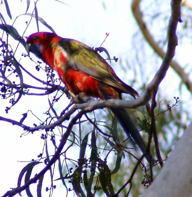 Description: Crimson Rosella (Platycercus elegans) - Immature bird Location: Australian National Botanic Gardens, Canberra, Australian Capital Territory, Australia Date: 2005-09-21 Source: picture taken by Danielle Langlois Licence: Released under GFDL and Creative Commons licenses by the photographer